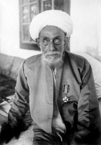 Habib Othman bin Yahya, the Mufti of Batavia in 19th century